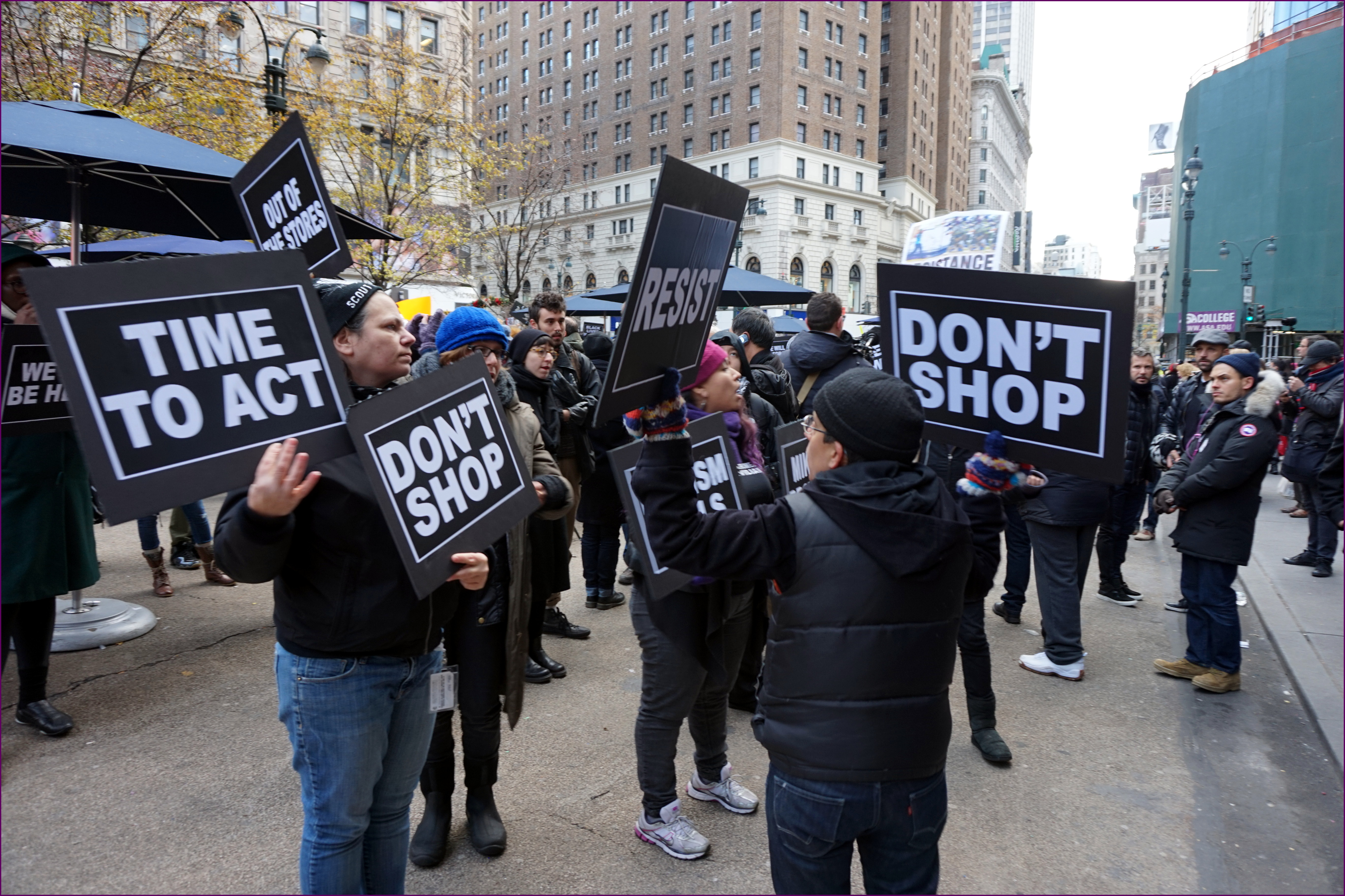 NYC action in solidarity with Ferguson. Mo, encouraging a boycott of Black Friday Consumerism.